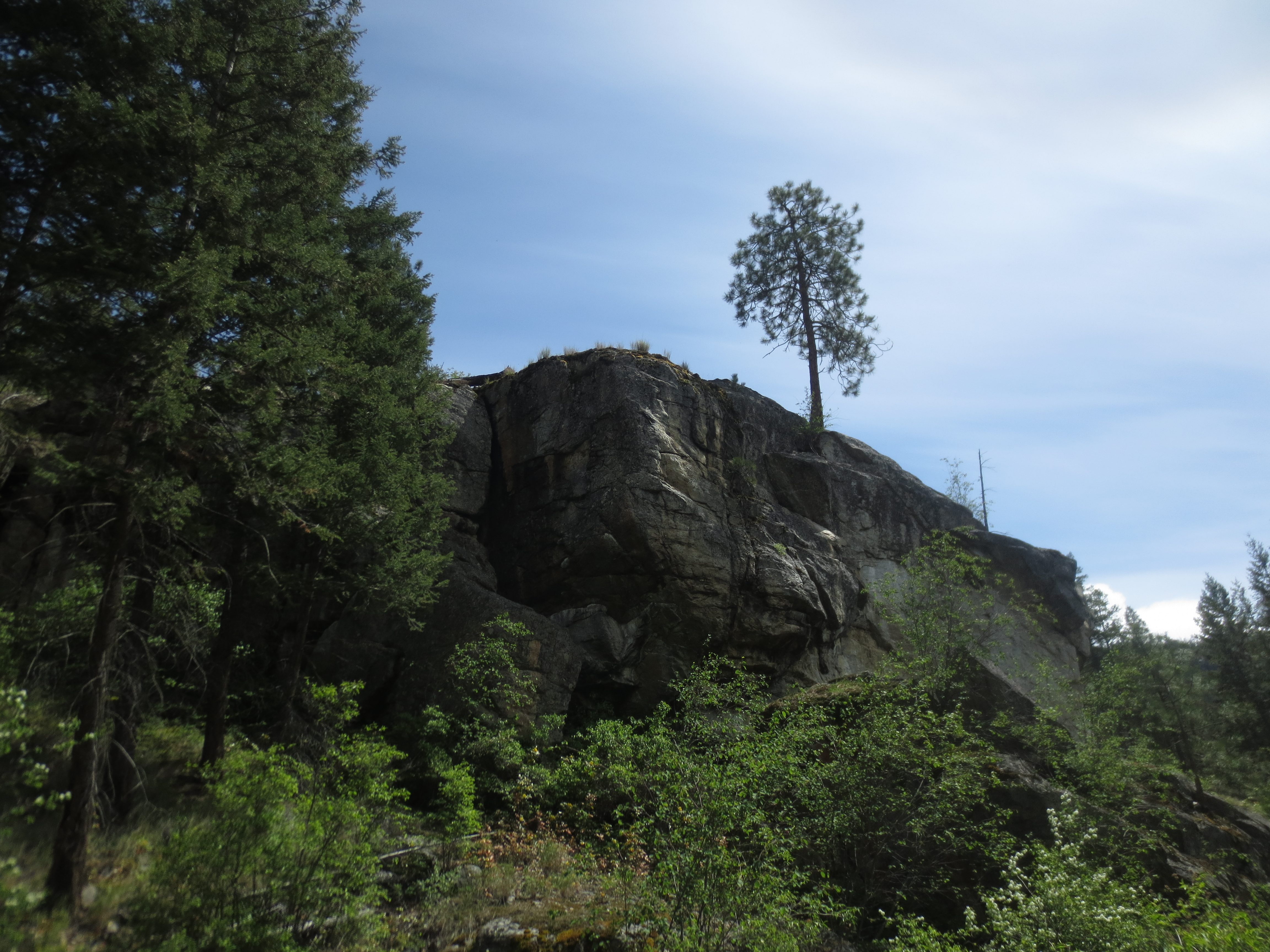 Maverick Ponderosa Pine atop an outcrop near the Skaha Bluffs